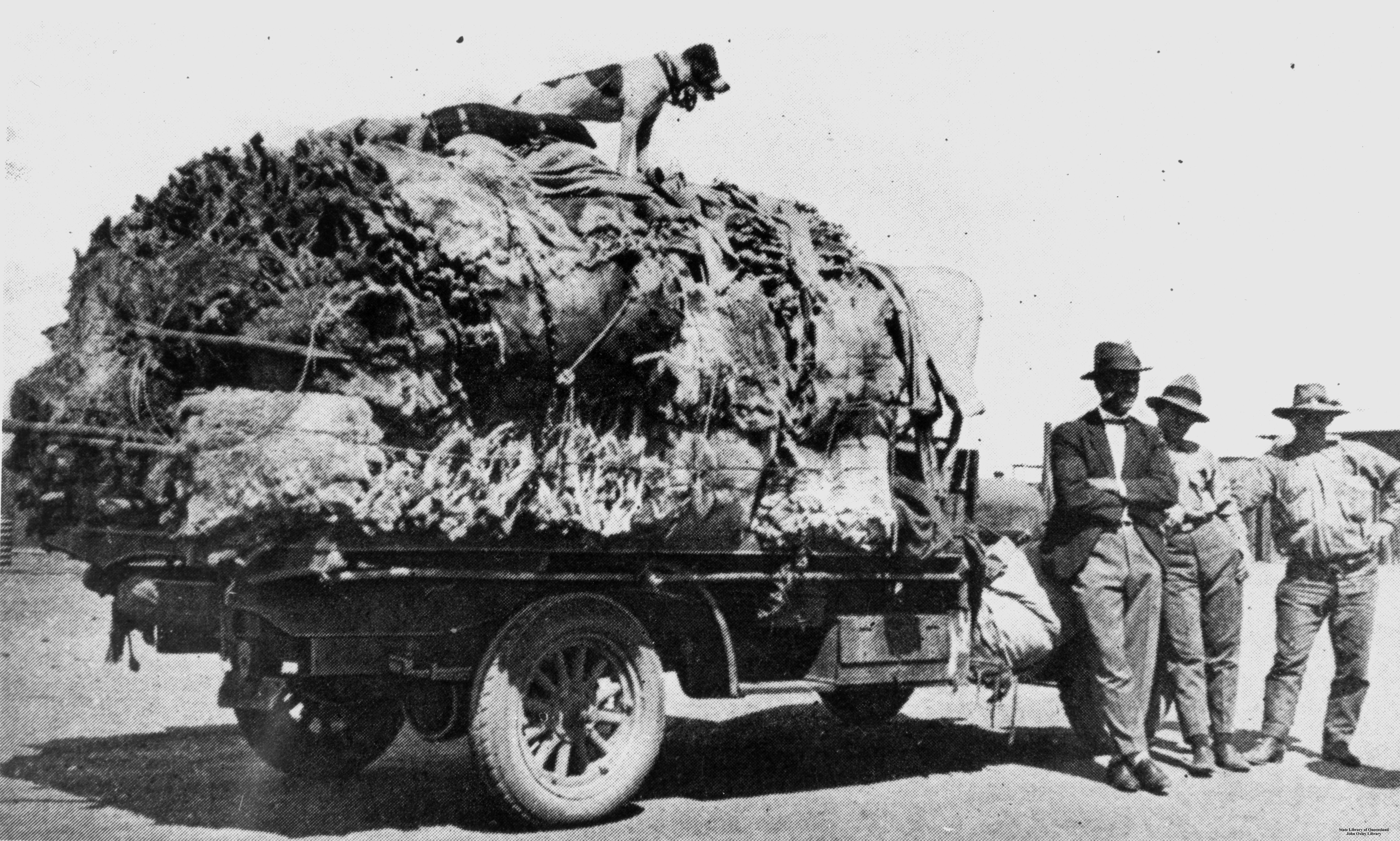 View of a truck load of 3600 koala skins which were obtained by a party of hunters in the Clermont area in thirty days, during the last open hunting season in Queensland, 1927. A dog stands on top of the pile of skins and three men stand at the front of the truck. [Information taken from Burnet Noel, The bluegum family at Koala Park, 1932, via State Library of Queensland]